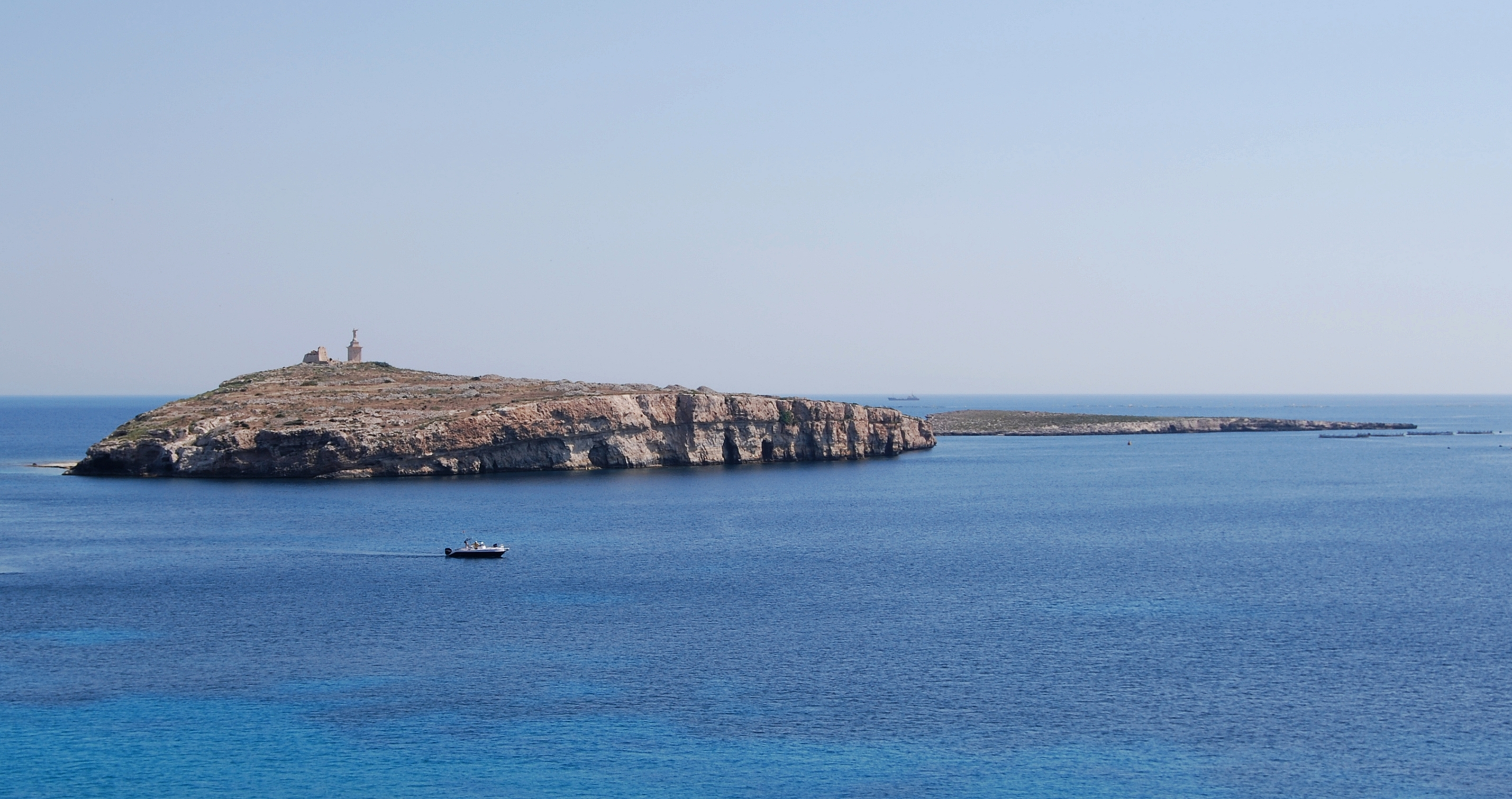 St Paul's Island, Malta.